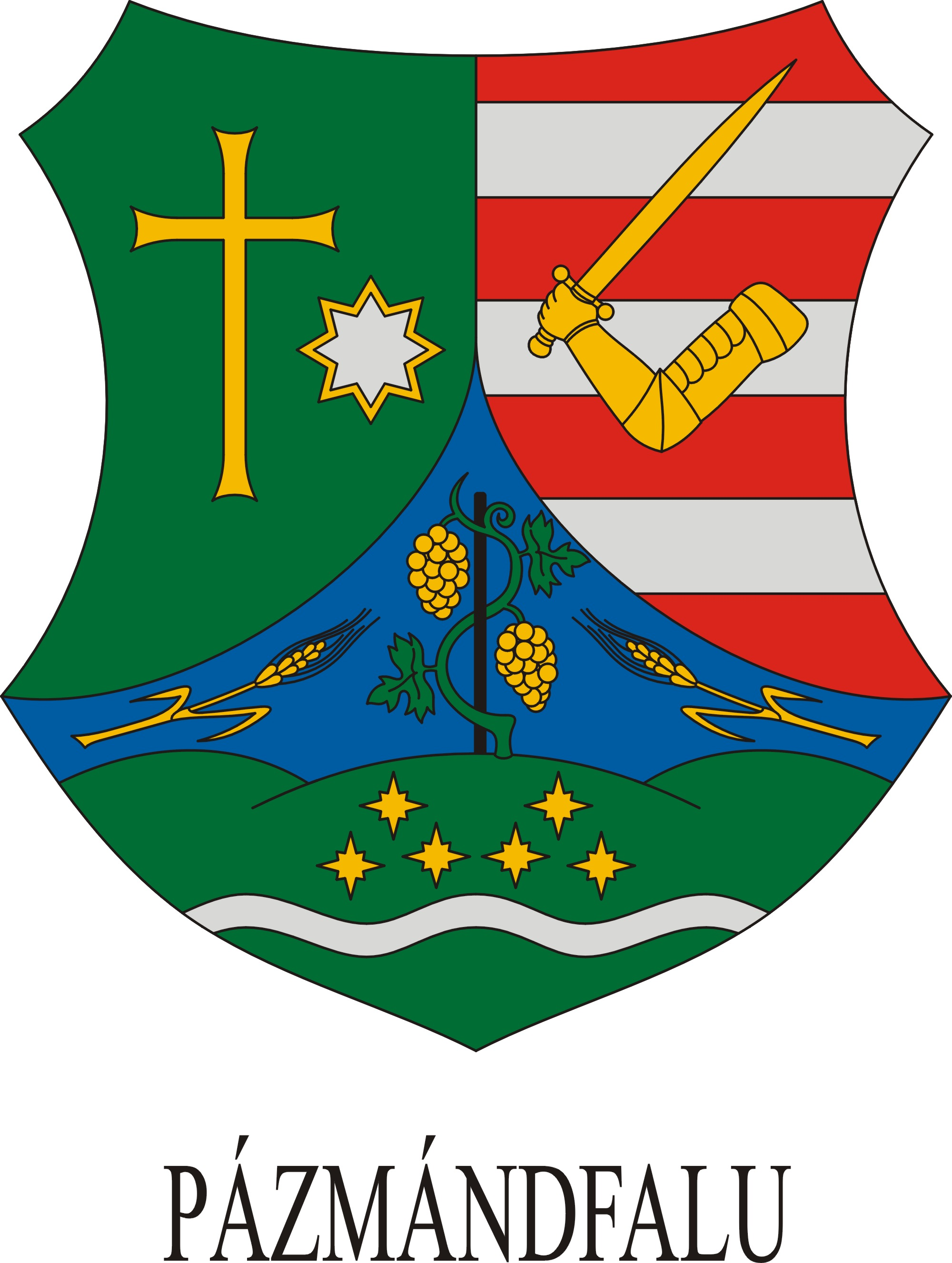 Coat of arms of Pázmándfalu, Hungary